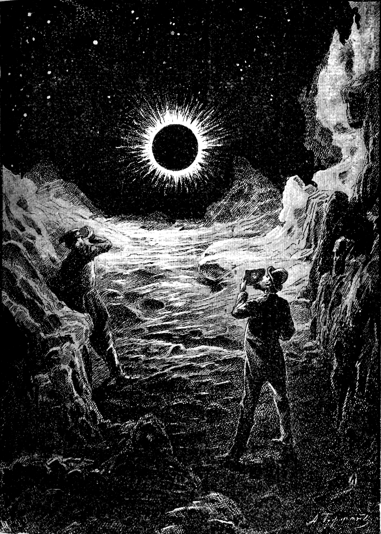 Picture from book "На Луне" (1893)